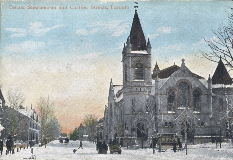 Corner Sherbourne and Carlton Streets, looking east, Toronto, Canada. Sherbourne Street Methodist Church (today St. Luke's United Church) is shown on the southeast corner.